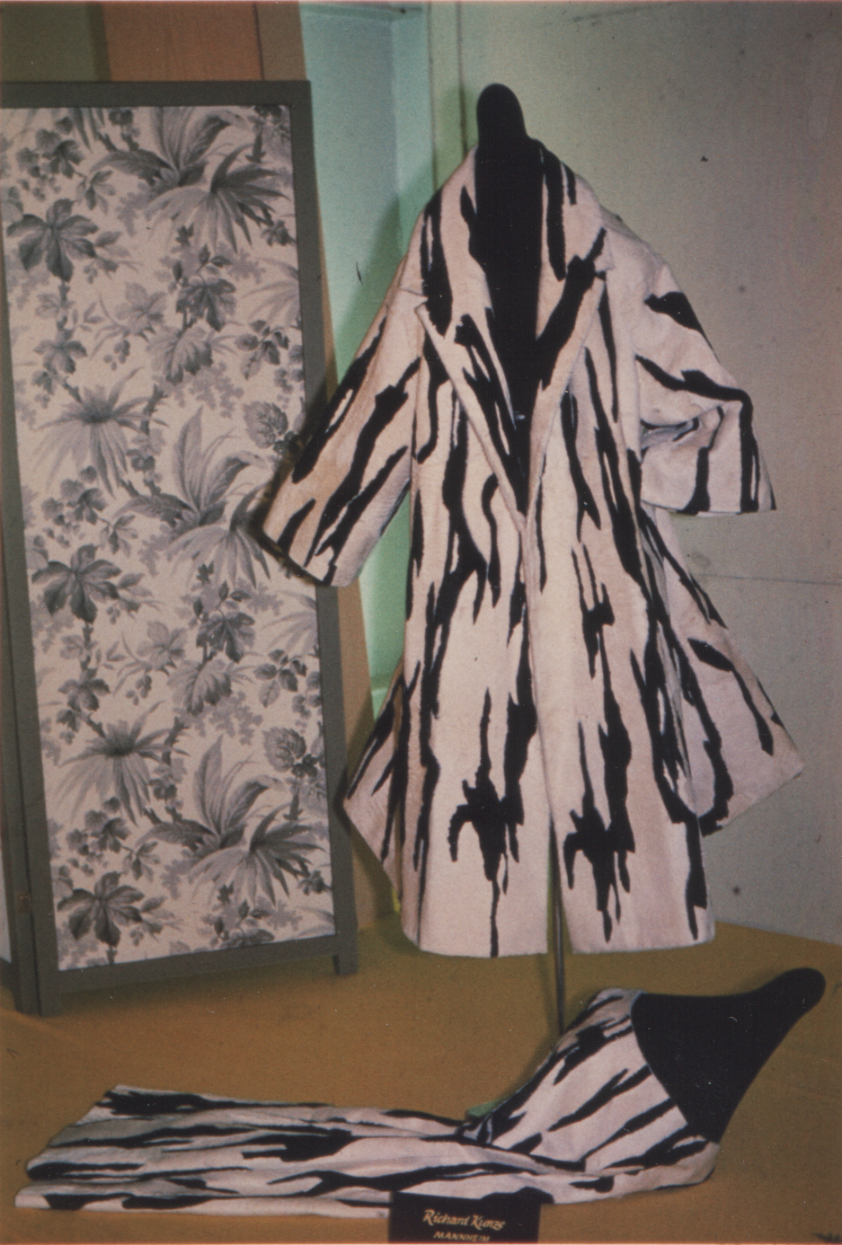 Two-pieced broadtail suit, Richard Kunze, Mannheim, Germany